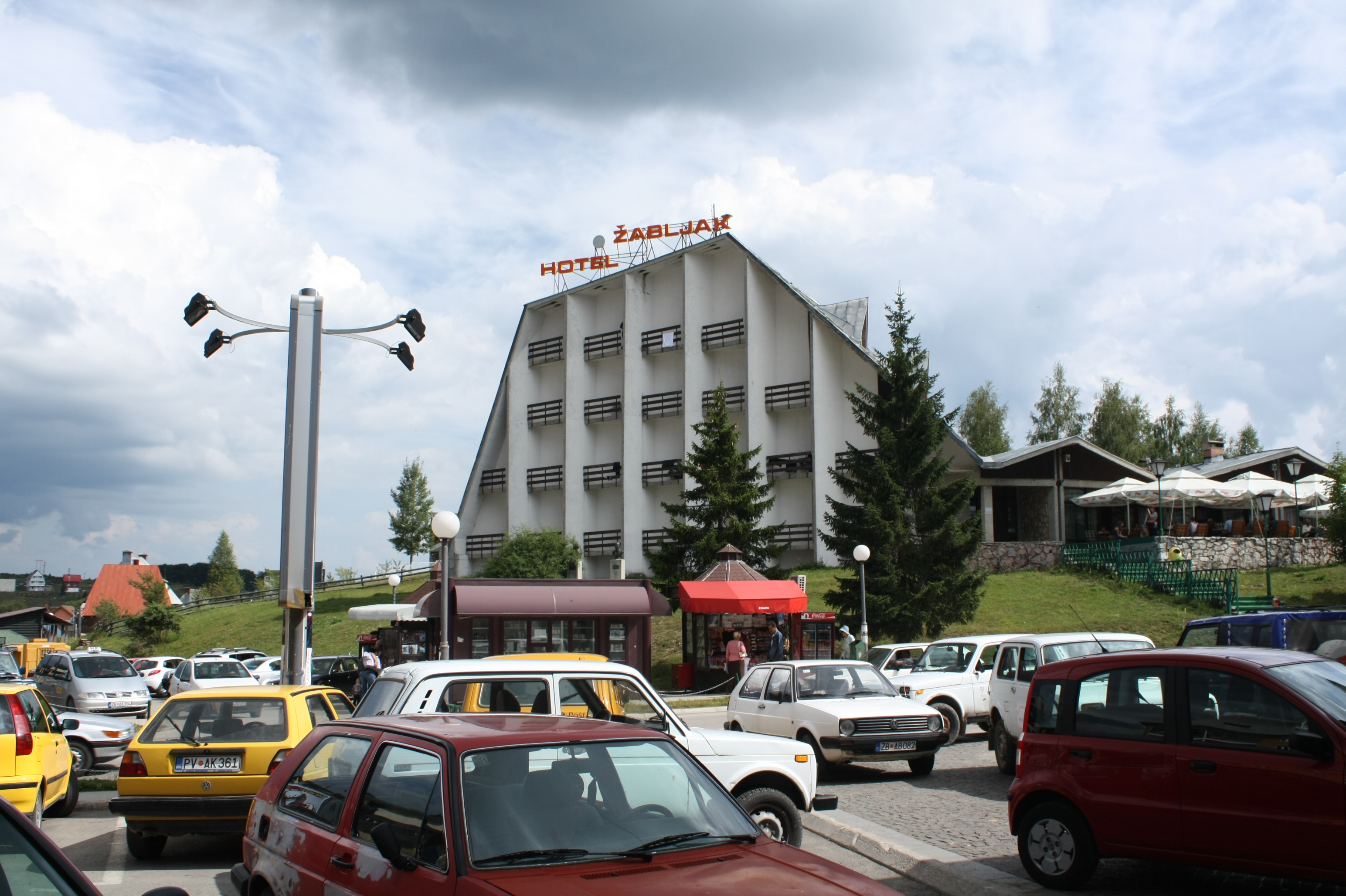 Žabljak, Montenegro - hotel in the town centre